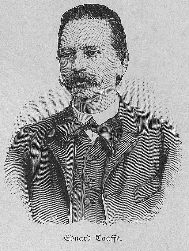 Eduard Taaffe, 11th Viscount Taaffe